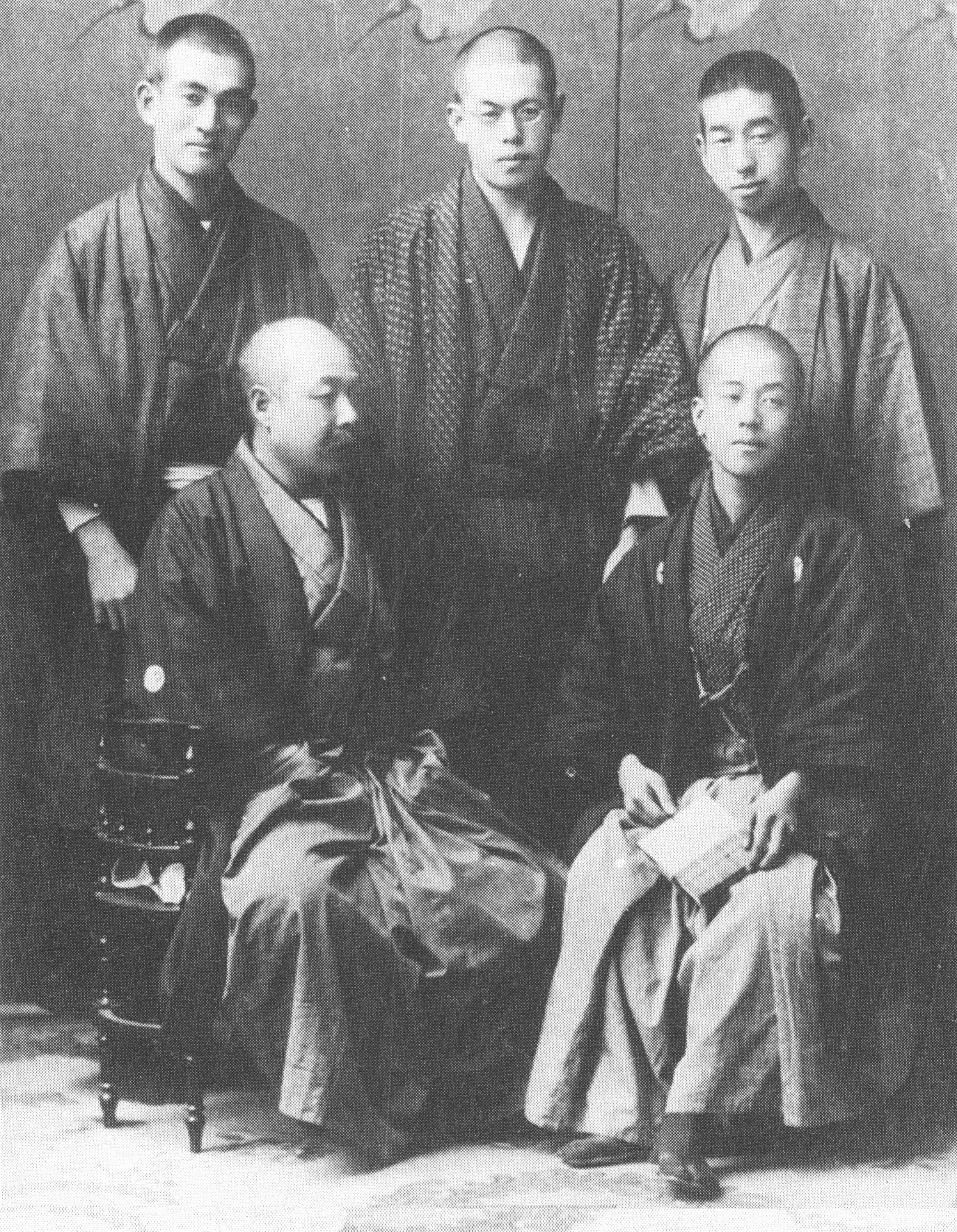 Mushanokoji Saneatsu and others